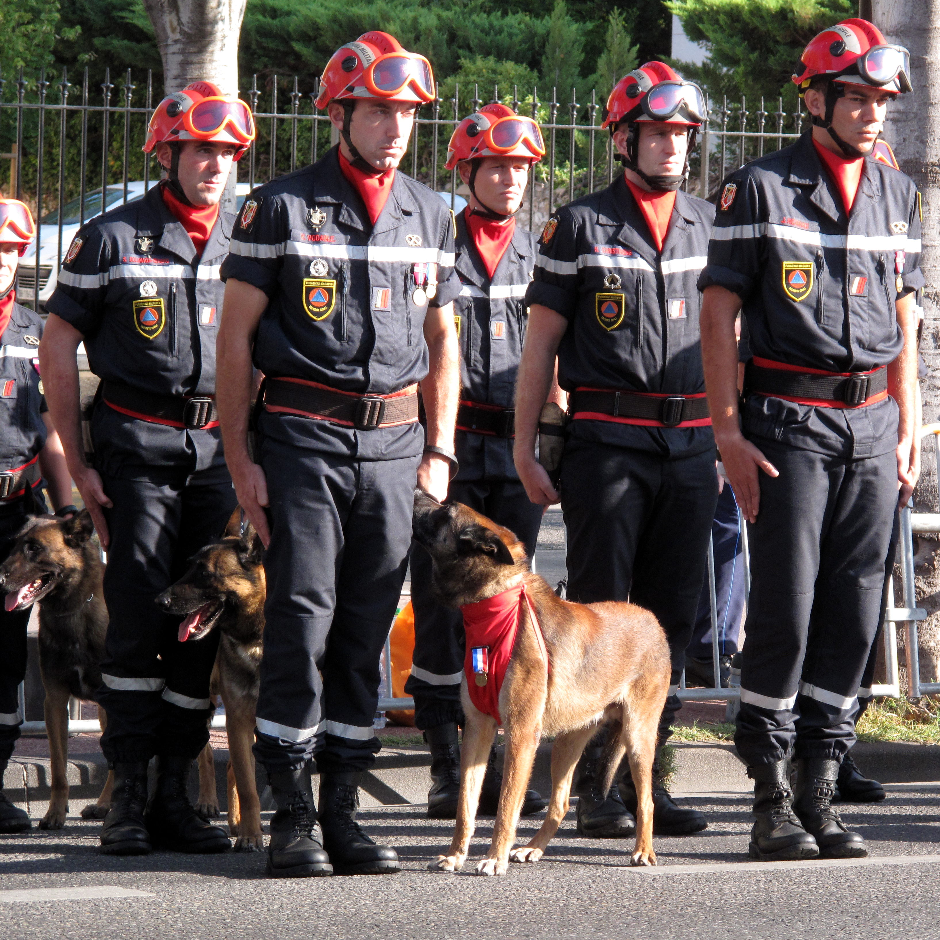 Cynotechnical unit of the Unité d'Instruction et d'Intervention de la Sécurité Civile n°7 (UIISC 7) during the military parade of 14 July 2012 in Marseille, with a decorated dog. The making of this document was supported by Wikimédia France. (Submit your project!)